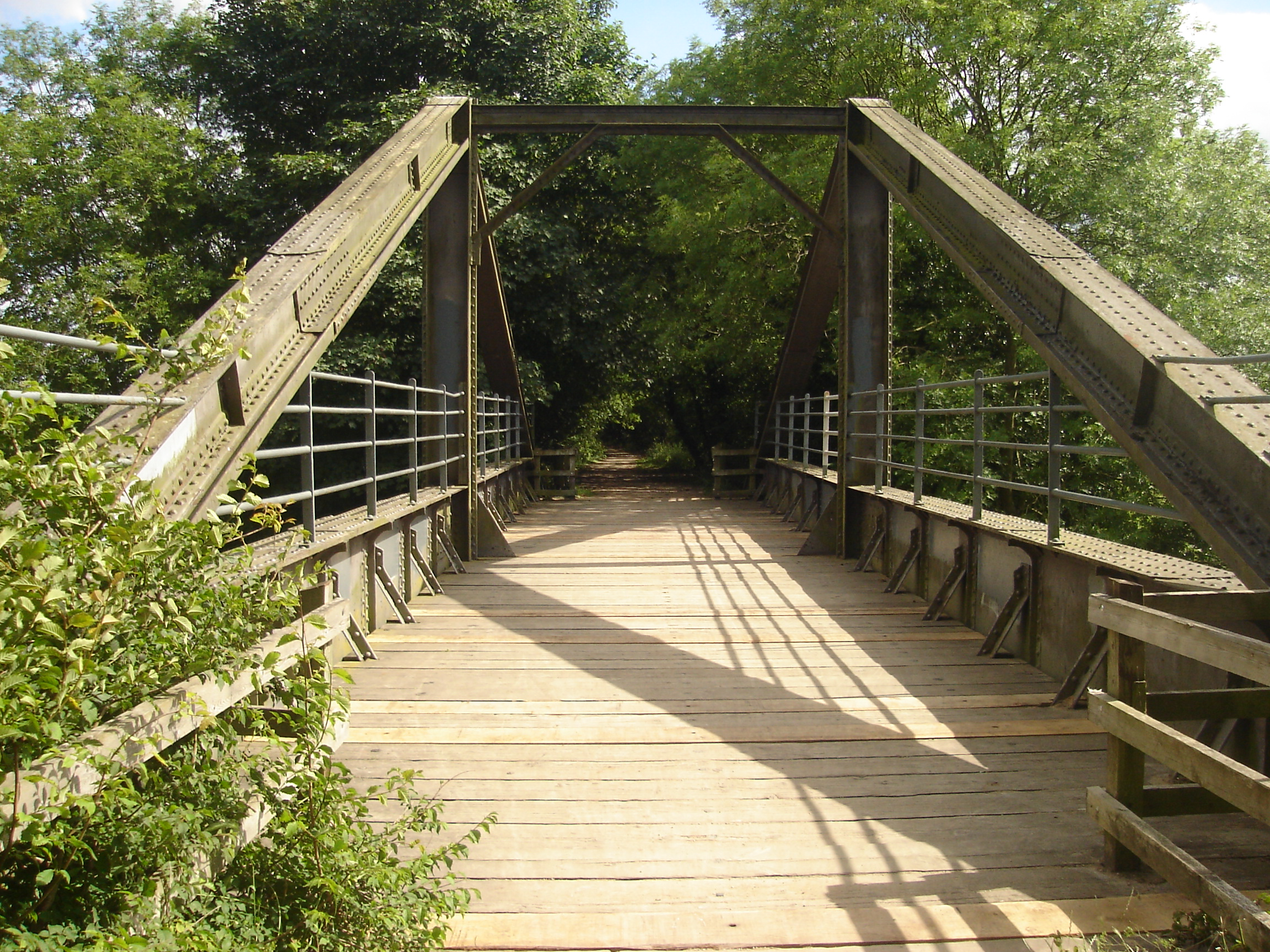 Picture of an A Frame bridge spanning the River Wensum at Marriott's Way, Costessey, Norfolk